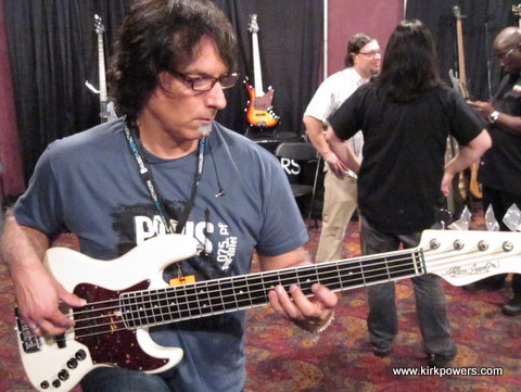 Kirk Powers, Bass Player with his Alleva Coppolo Custom LG5 Bass